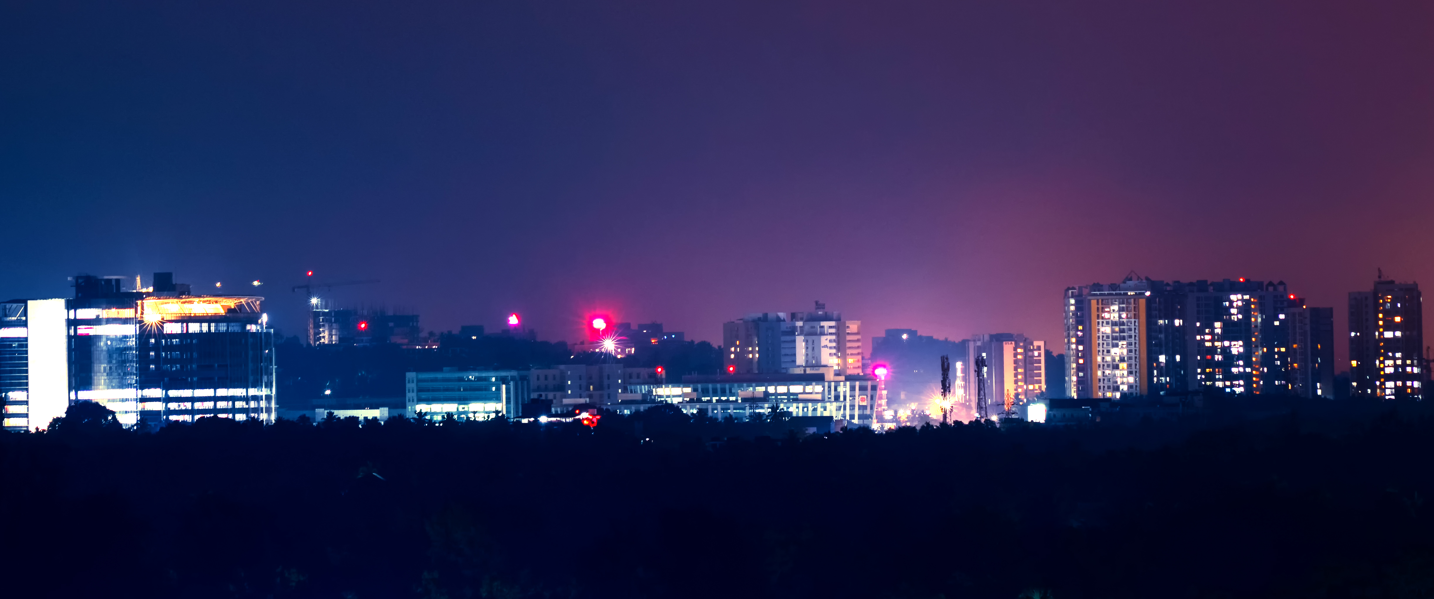 Beautiful Night View of Technopark Trivandrum which is the largest IT Park in Asia is at Kazhakootam, Trivandrum.